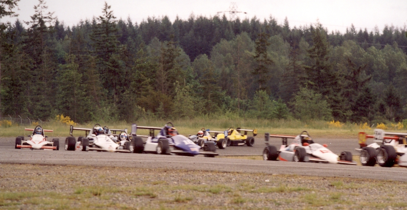 Large, close fields are common in Formula Mazda racing. Photo by Canonperson, circa 1997